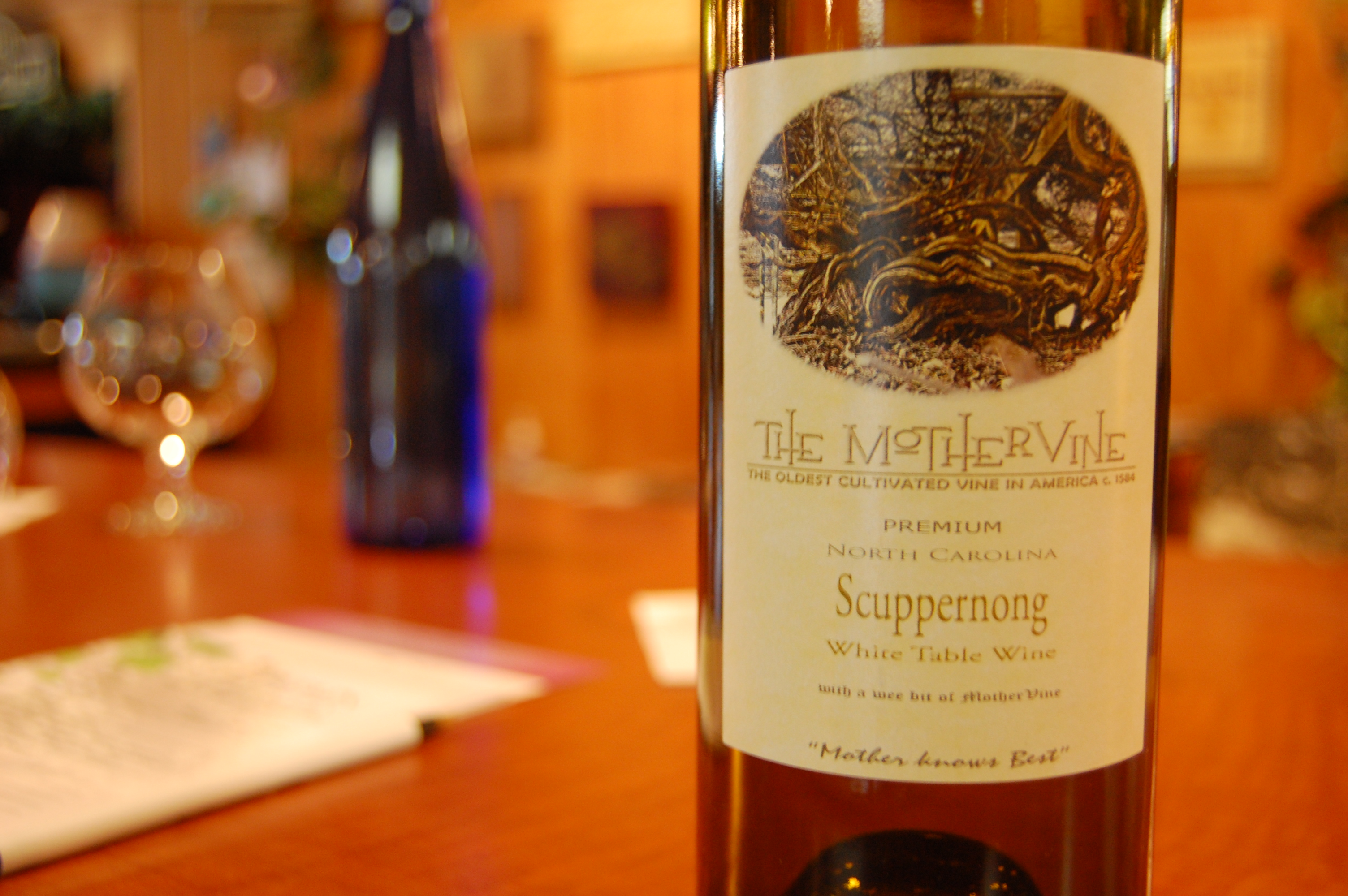 A North Carolina wine made from the Scuppernong grape